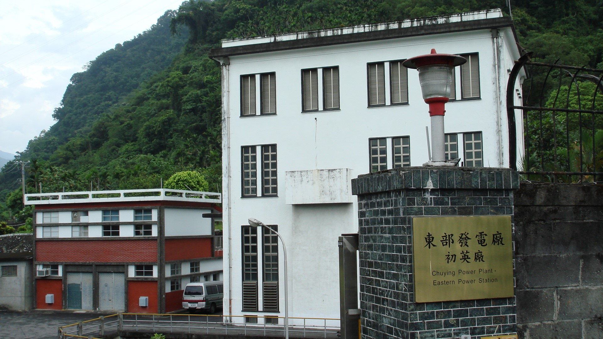 Taiwan power Company The Eastern Power plant Chu-Yin Hydroelectricity Gate